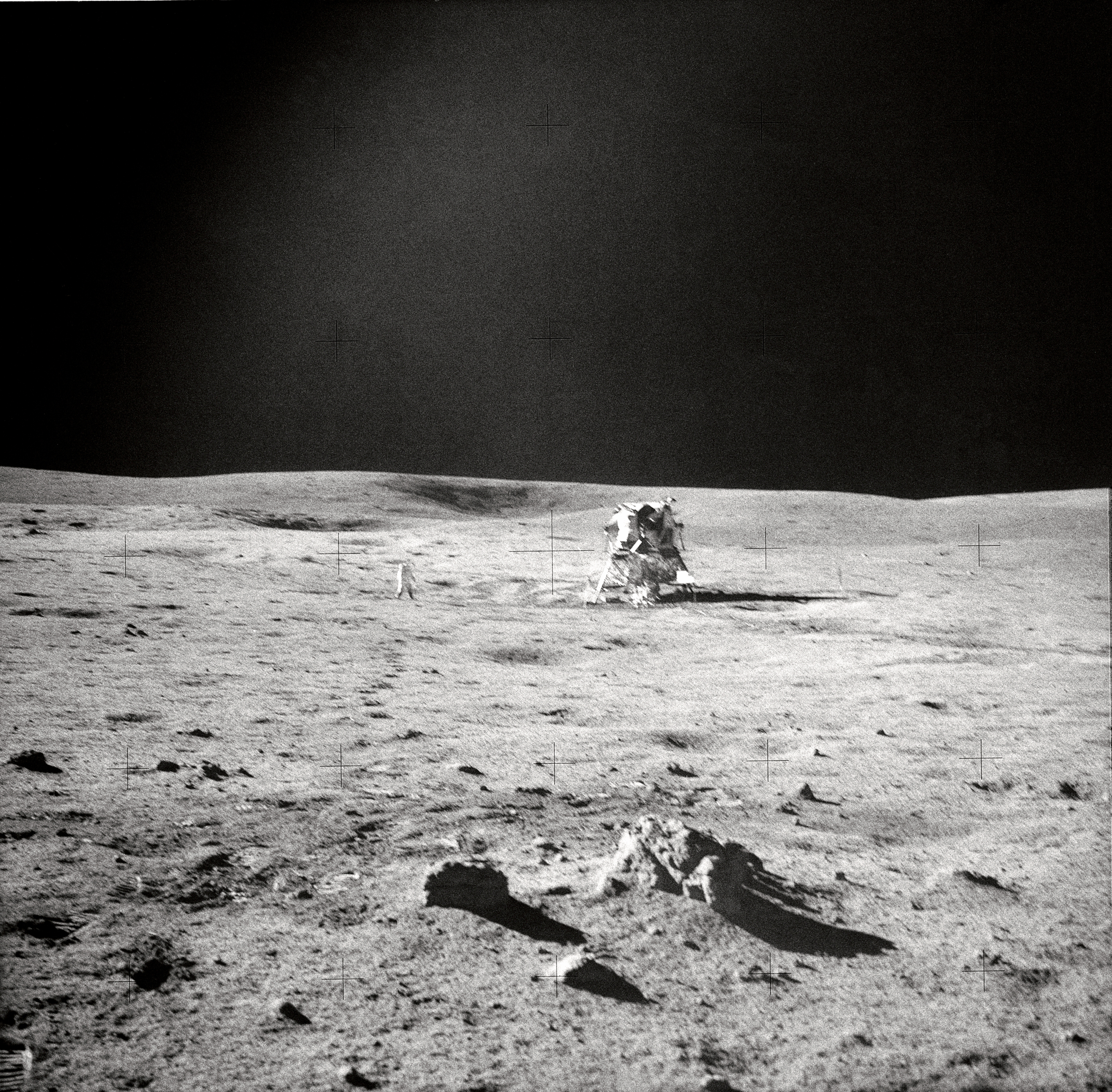 Astronaut Edgar D. Mitchell, lunar module pilot, photographed this sweeping view showing fellow Moon-explorer astronaut Alan B. Shepard Jr., mission commander, and the Apollo 14 Lunar Module (LM). A small cluster of rocks and a few prints made by the lunar overshoes of Mitchell are in the foreground. Mitchell was standing in the boulder field, located just north by northwest of the LM, when he took this picture during the second Apollo 14 extravehicular activity (EVA-2), on February 6, 1971. While astronaut Stuart A. Roosa, command module pilot, remained with the Command and Service Modules (CSM) in lunar orbit, Shepard and Mitchell descended in the LM to explore the Moon.